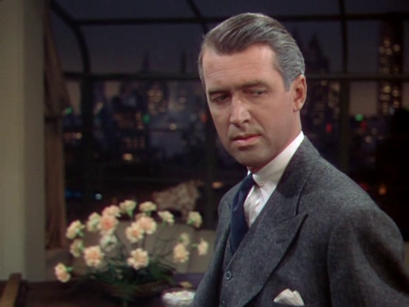 Cropped screenshot of James Stewart from the trailer for the film Rope